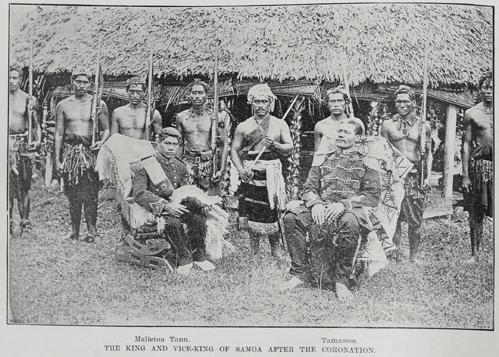 The King and Vice-King of Samoa after the Coronation. Full length seated portrait of Malietoa Tanu and Tamasese in pseudo-military uniform, with native guard and traditional fale behind. Taken from the supplement to the Auckland Weekly News 21 April 1899 p006.